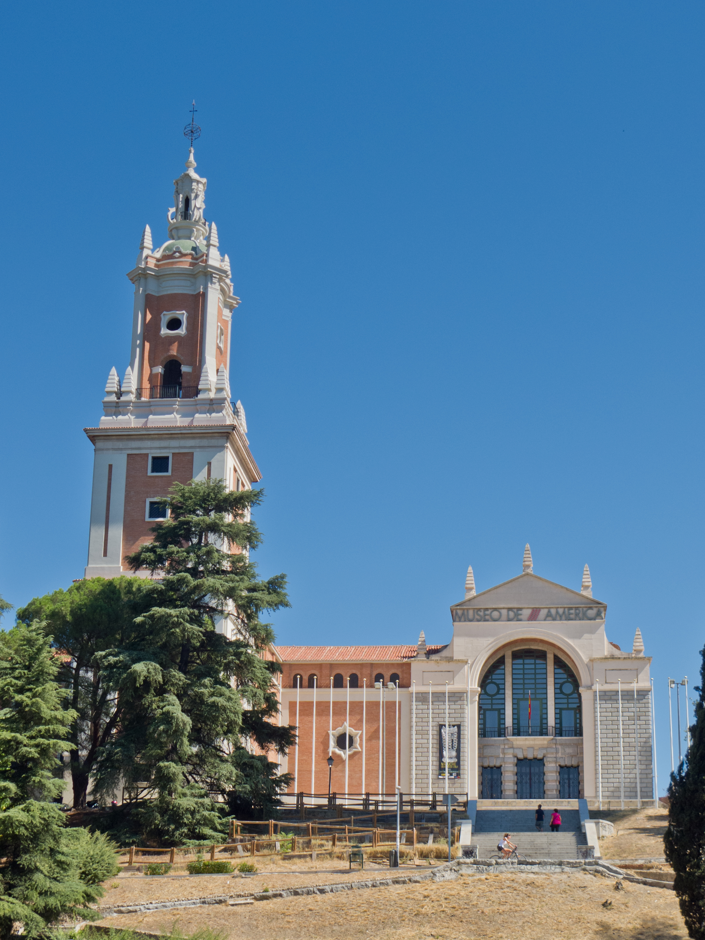 Museum of the Americas in Madrid, Spain.